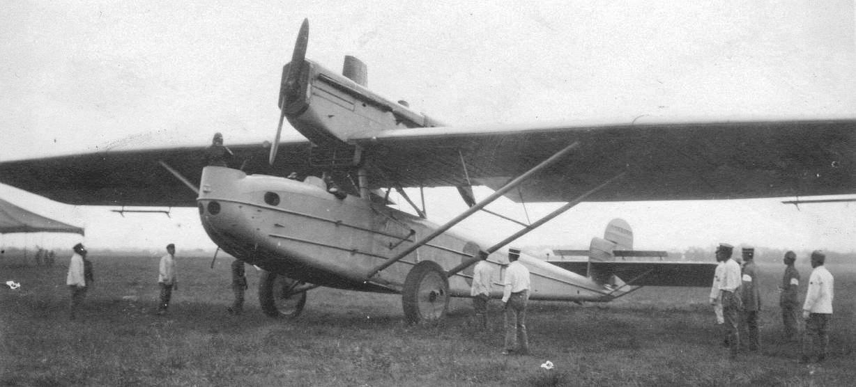 Kawasaki-Dornier Do N, Kawasaki Ka 87, Kawasaki Type 87 Heavy Bomber (sometimes referred to as Kawasaki Type 87 Night Bomber)